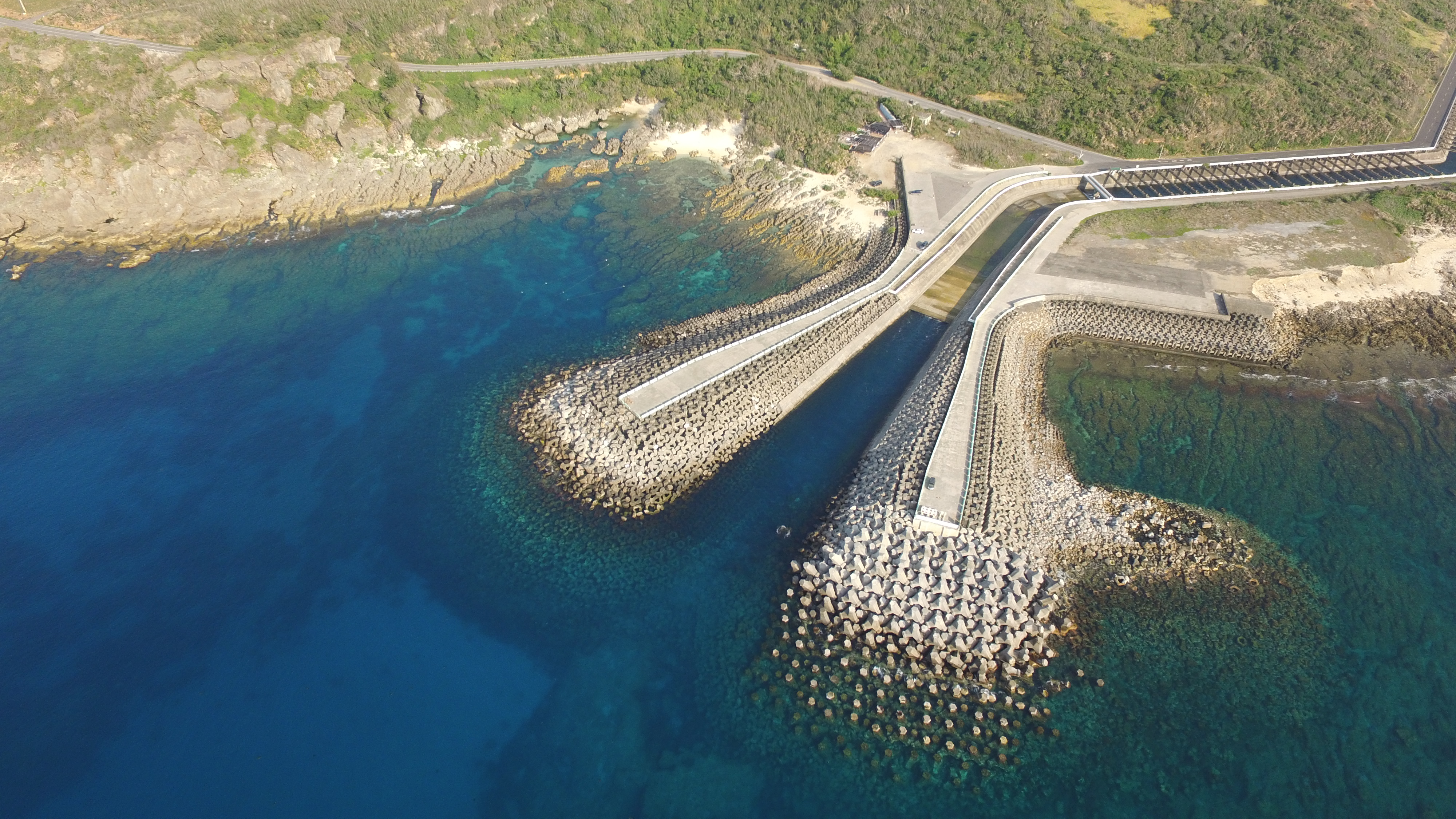 Kenting National Park, Taiwan